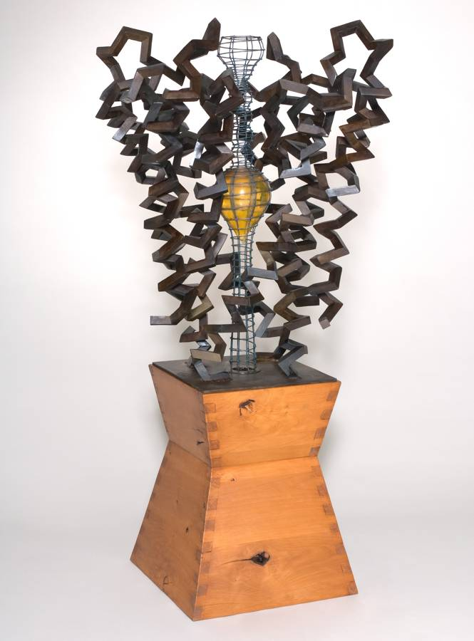 "Birth of an Idea", 2007 5' x 3' x 3' (1.50 m x 0.90 m x 0.90 m) Steel, glass, wood Sculpture by Julian Voss-Andreae based on potassium channel KcsA. Photo by Dan Kvitka. Sculpture commissioned and owned by Roderick MacKinnon. Please use only with link to